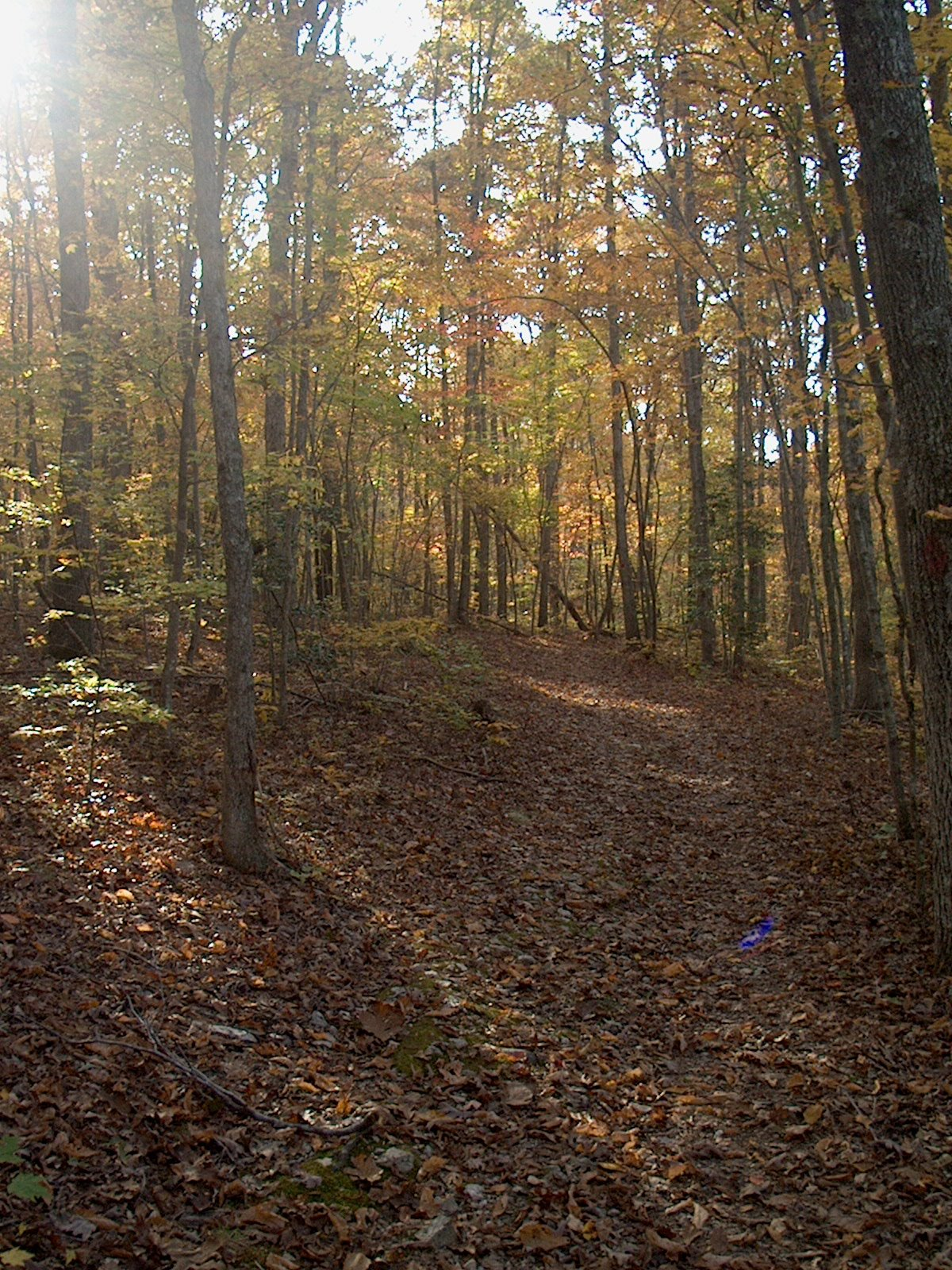 Medoc Mountain State Park in early November.